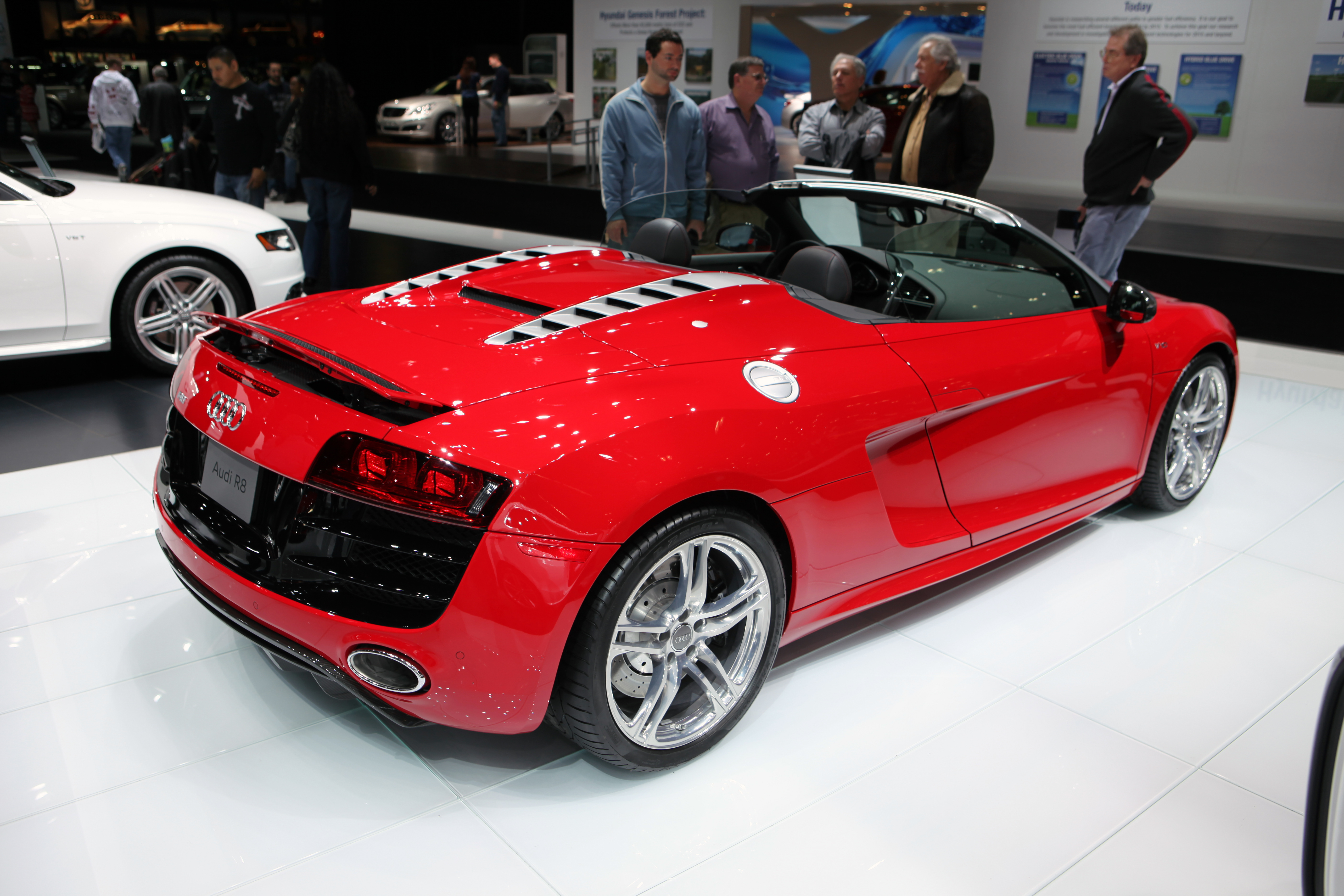 Audi R8 Spyder at LA Auto Show 2009.